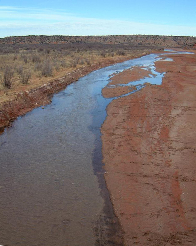 Prairie Dog Town Fork Red River at crossing of Texas State Highway 207.